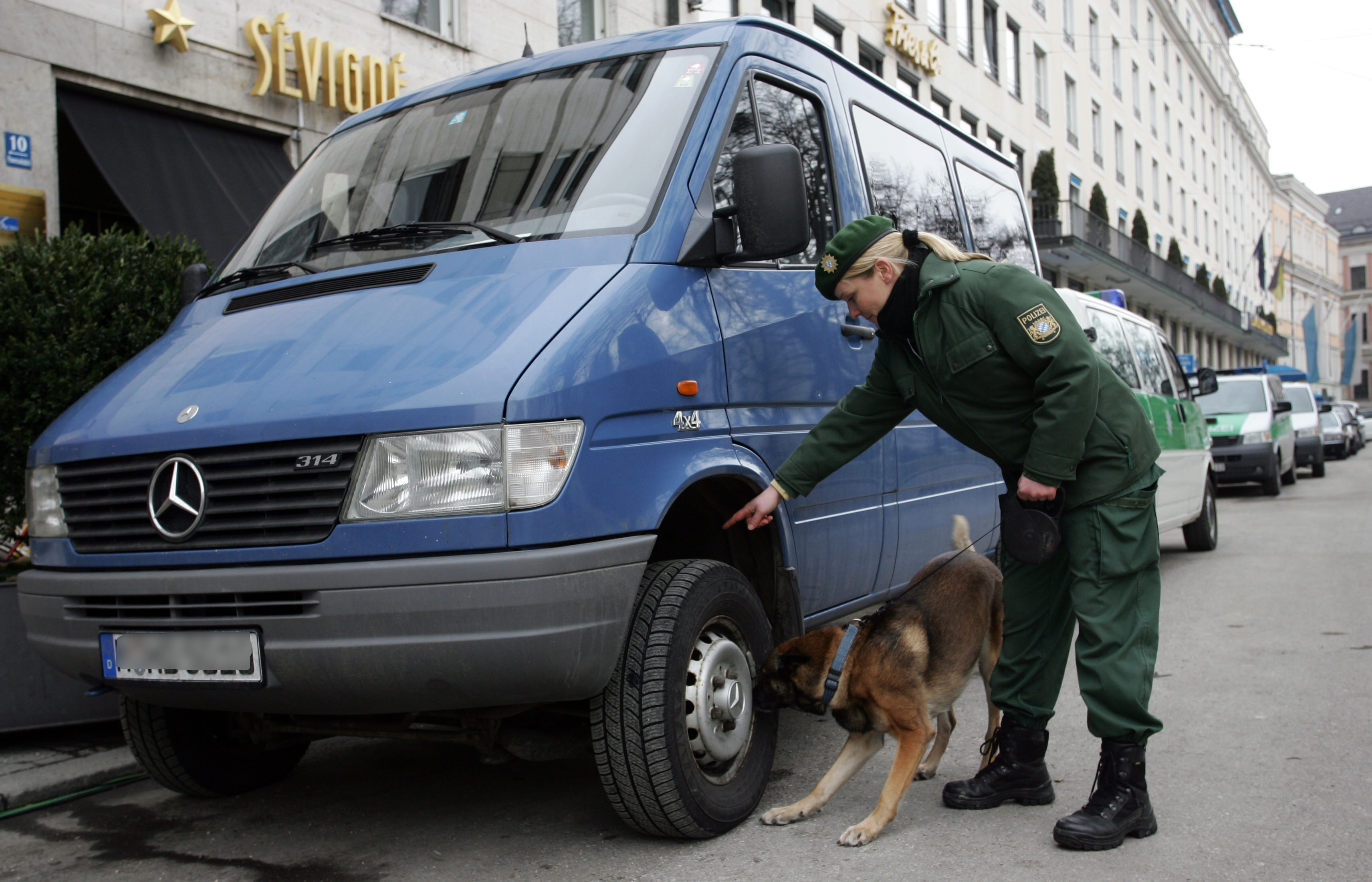 46th Munich Security Conference 2010: Security is tight throughout the conference.